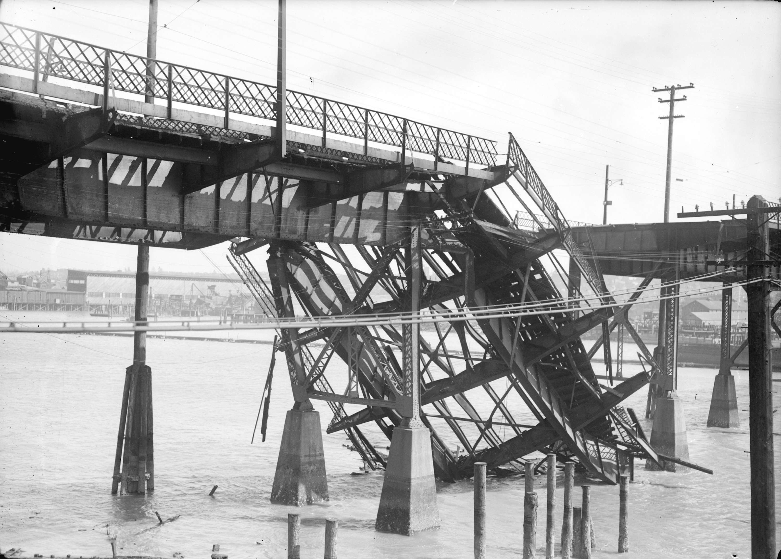 A portion of fire damaged section of Connaught Bridge (Cambie Street Bridge) in Vancouver, collapsed into False Creek.